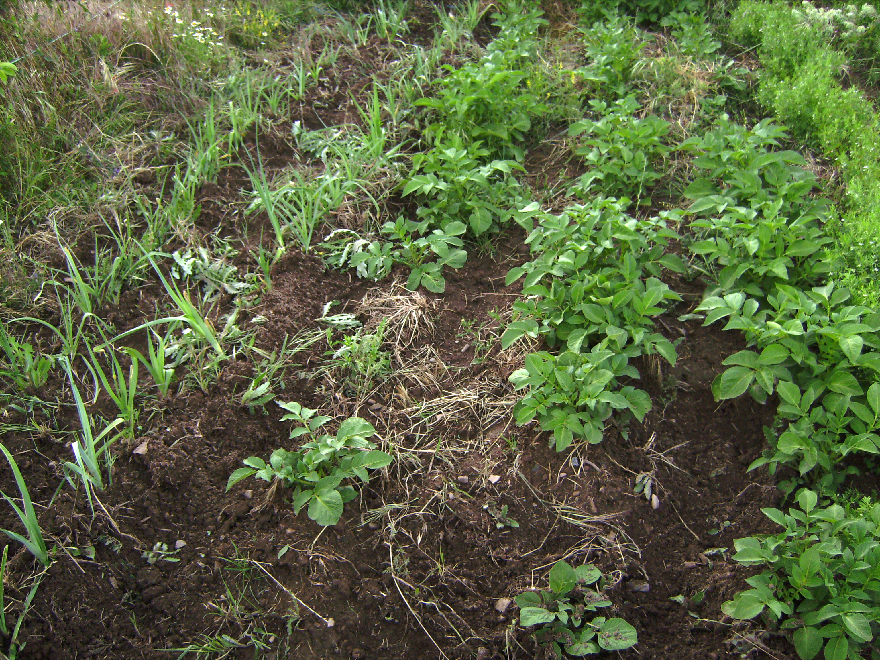 Vegetable garden with leeks (left) potatoes (center) and lentils (right), Castelltallat, catalonia